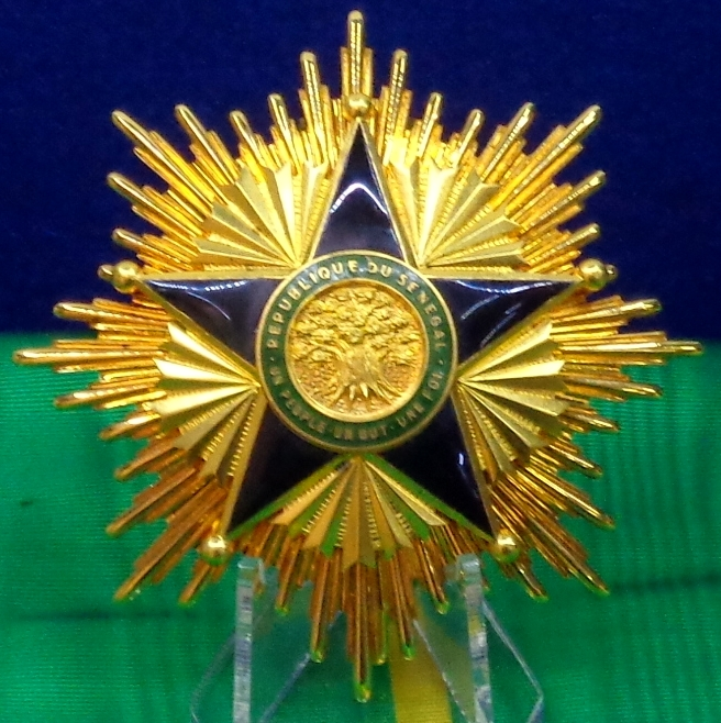 National Order of Merit, star of Grand Cross. Senegal. The exhibition of the Tallinn Museum of Orders of Knighthood, Estonia.